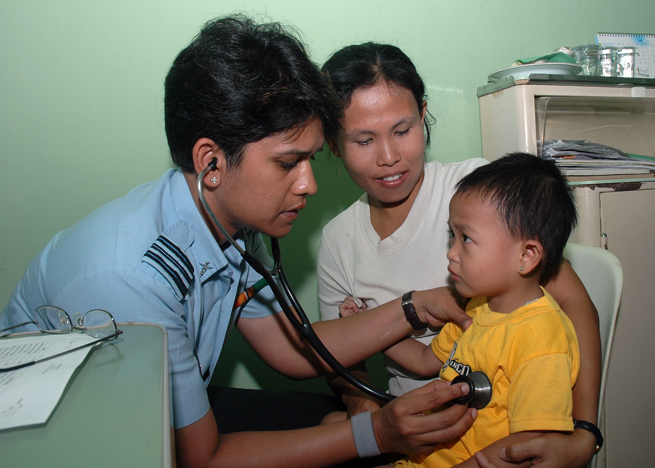 Indian Air Force physician Bharathi Mahapatra examines a young boy’s heart rate at the Gunungsitoli General Hospital. Mercy is off the coast to provide humanitarian and civic assistance to the people of Nias. The hospital ship USNS Mercy (T-AH 19) is in the third month of a scheduled five-month deployment to host nations in the Pacific Islands, and South and Southeast Asia.